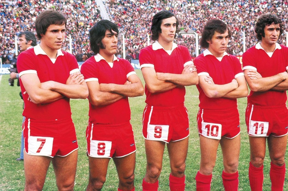 Squad numbers #7-11 players of C.A. Independiente, fltr: Daniel Bertoni, Rubén Galván, Ricardo Ruiz Moreno, Ricardo Bochini, Luis Giribet.